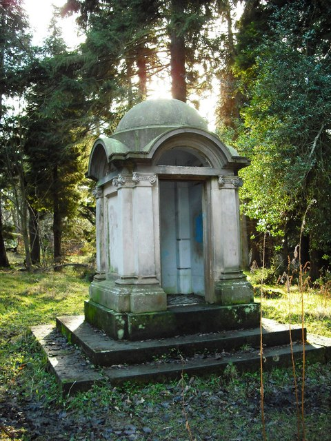 Mausoleum of Robert Baillie, 4th Baronet of Polkemmet, built in 1907. Polkemmet Country Park, near Whitburn, West Lothian, Scotland.